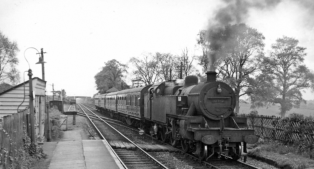 Broughton Astley Station and Down local train. View southward, towards Rugby; ex-Midland Rugby - Leicester line. In the days when thousands of tons of coal had to be conveyed daily from the Midlands coalfields to London and the South-East, a number of coal trains from Toton and other yards ran to the yards at Willesden (Sudbury Junction) in addition to all those up the Midland Main Line via Wellingbrough to Brent Sidings (Cricklewood). However, by the 1960s this line was superfluous and was closed (with the station) on 1/1/62. The train is a Rugby to Leicester local, headed by LMS Fowler 4P 2-6-4T No. 42352.